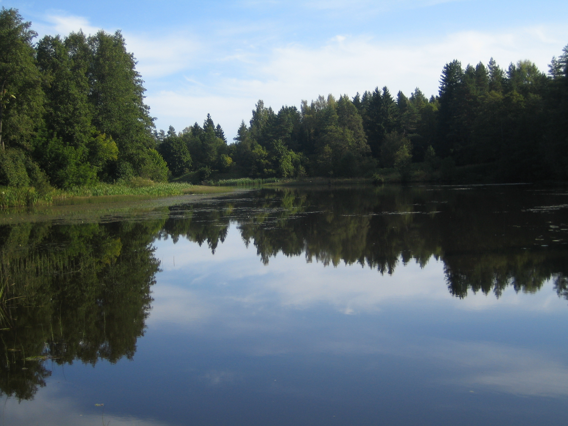 Lake Oandu in Lääne-Virumaa, Estonia